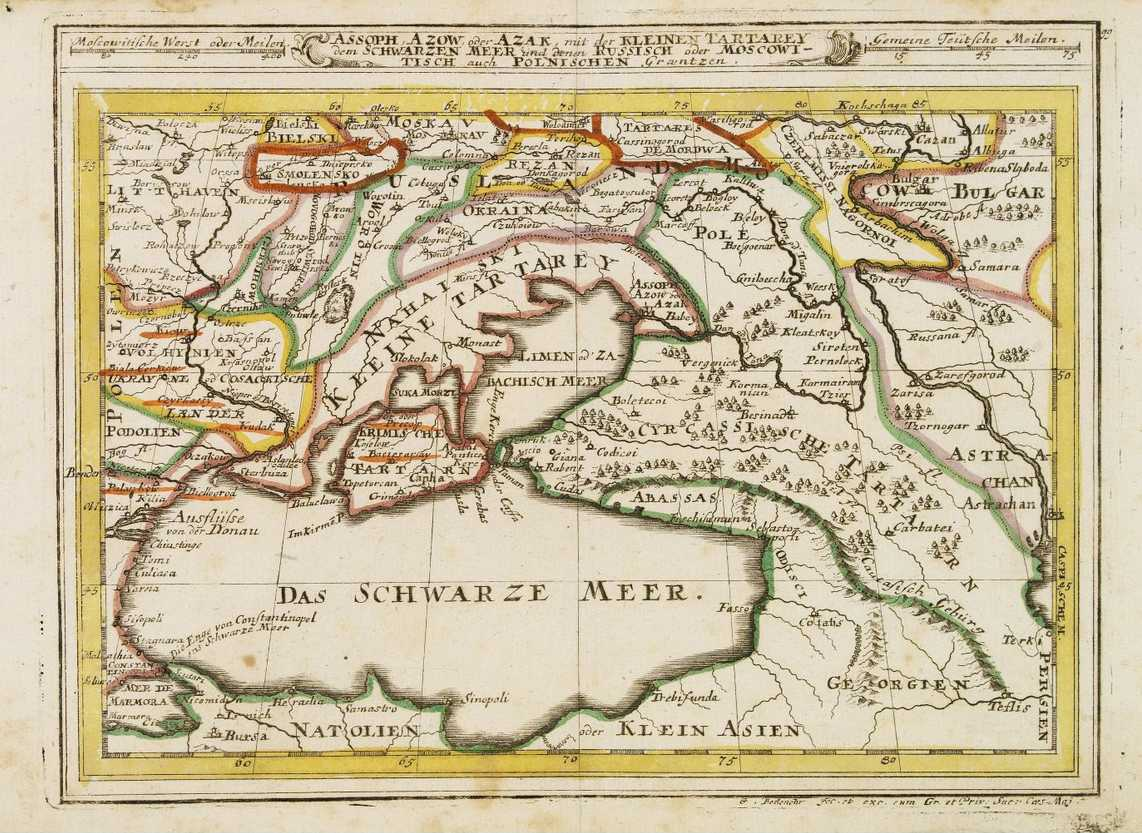 Black Sea, by Gabriel Bodenehr, c. 1720